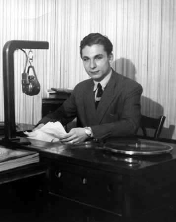 Dr Sabah Qabbani, Syria’s future Ambassador to the USA, as a young presenter on Syrian Radio in the early 1950s. Qabbani went on to become director of Syrian Radio and first president of Syrian Television when it opened in 1960.